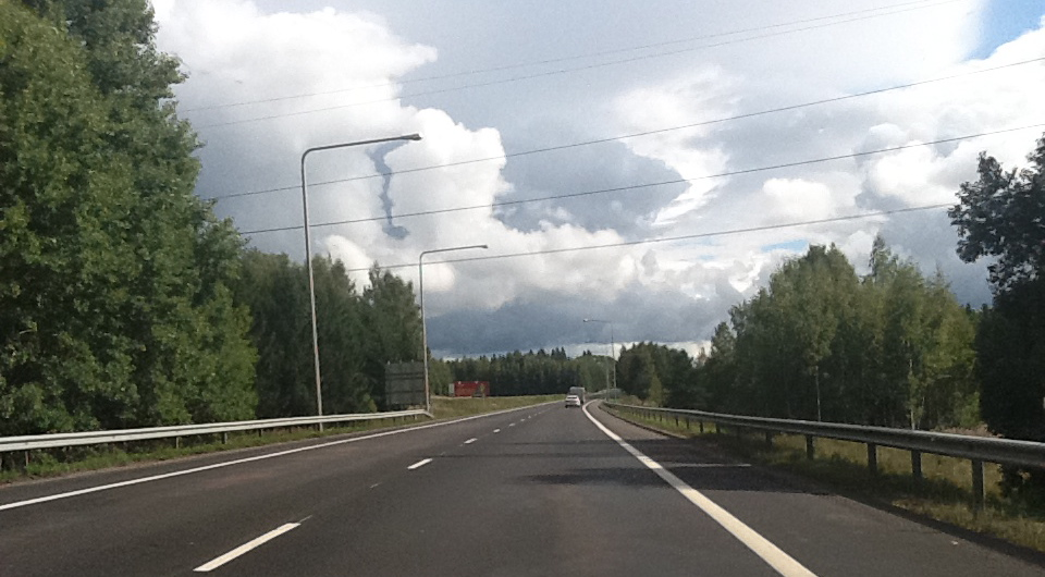 Finnish national roads 6 and 12 westbound of Kouvola on september 2011.